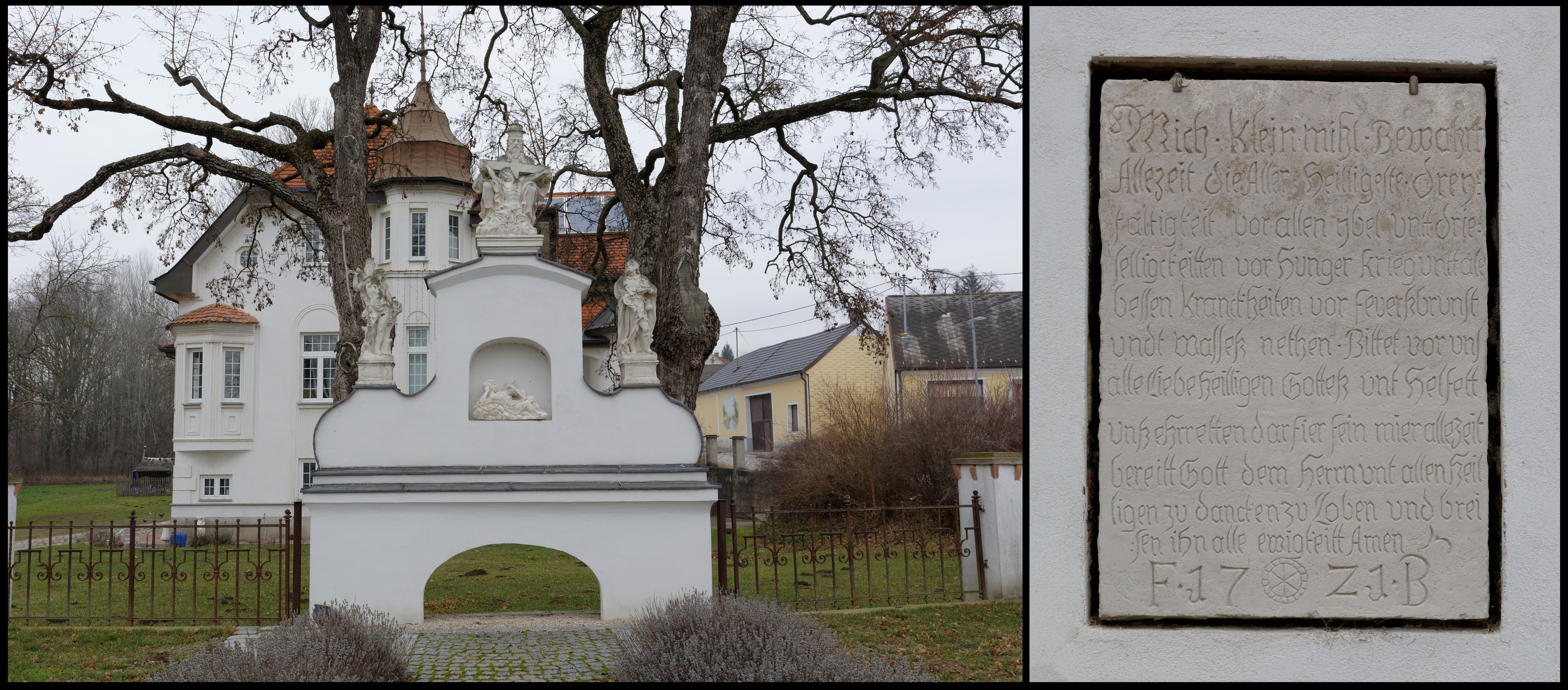 Wayside shrine and inscription tablet in Velm-Götzendorf, Lower Austria, Austria